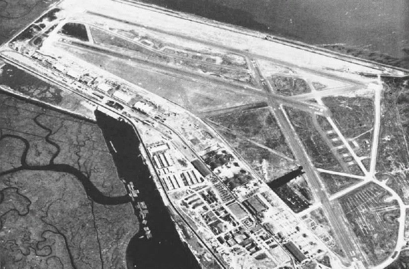 Aerial view of the Naval Air Station Oakland, California (USA), in the mid-1940s.